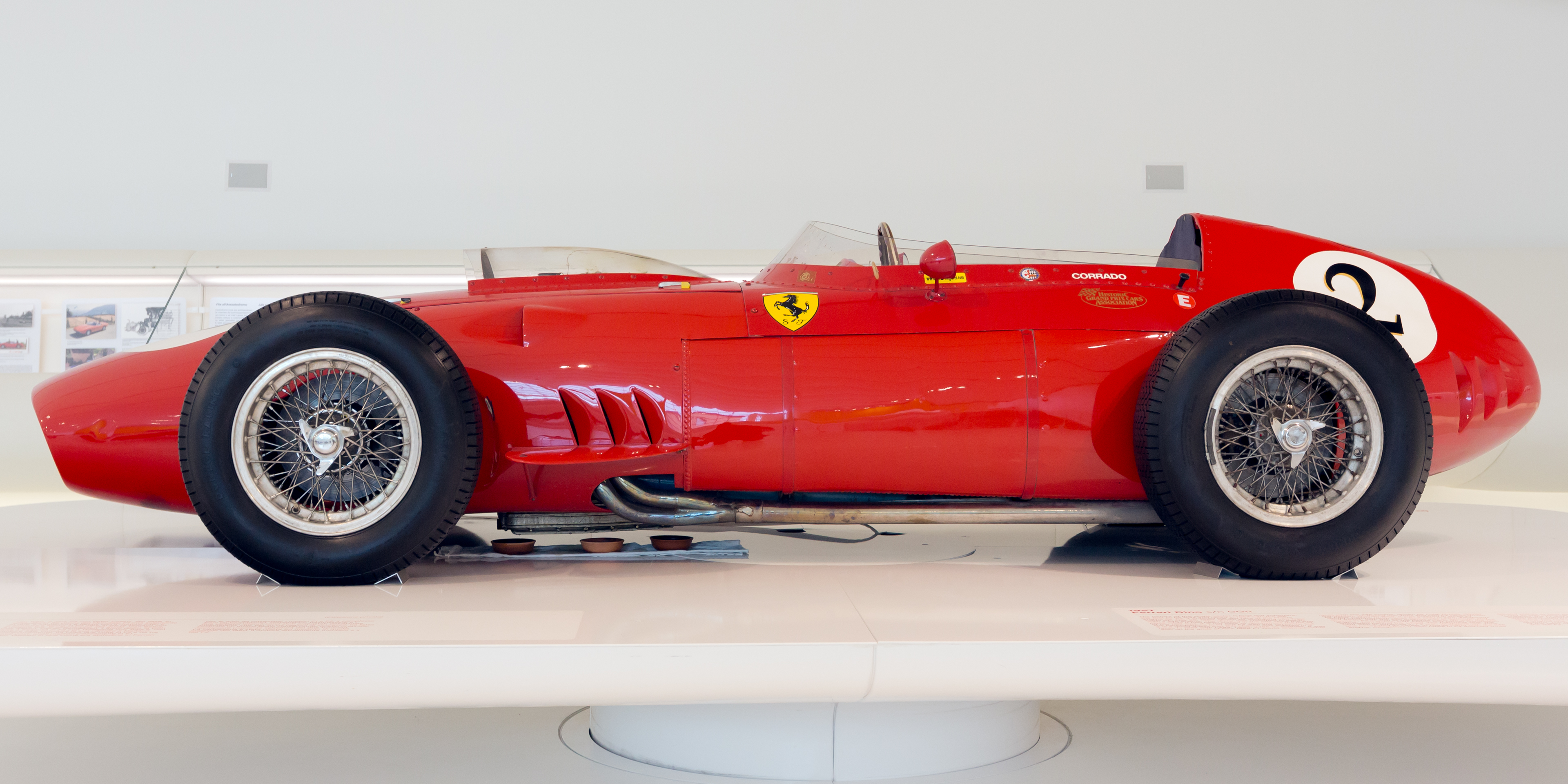 1957 Ferrari 246 F1 "Dino"